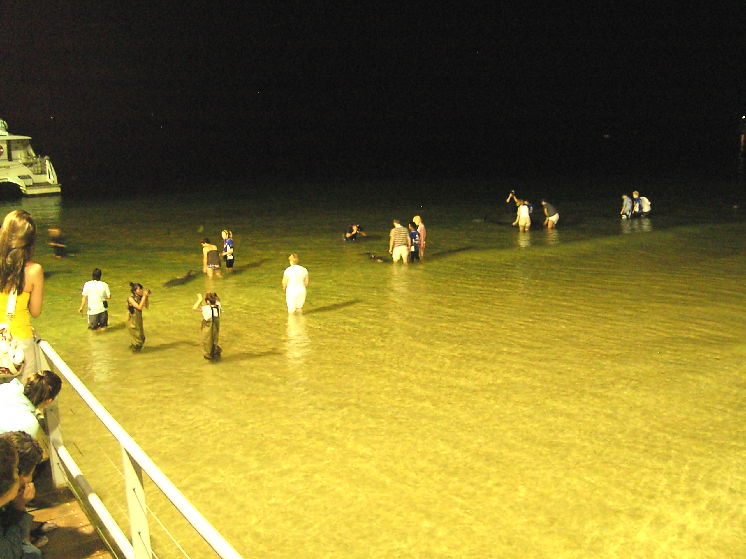 Tangalooma: Feeding program for wild bottle-nose dolphin. Note staff in blue shirts supervising visitors who enter the water in pairs.